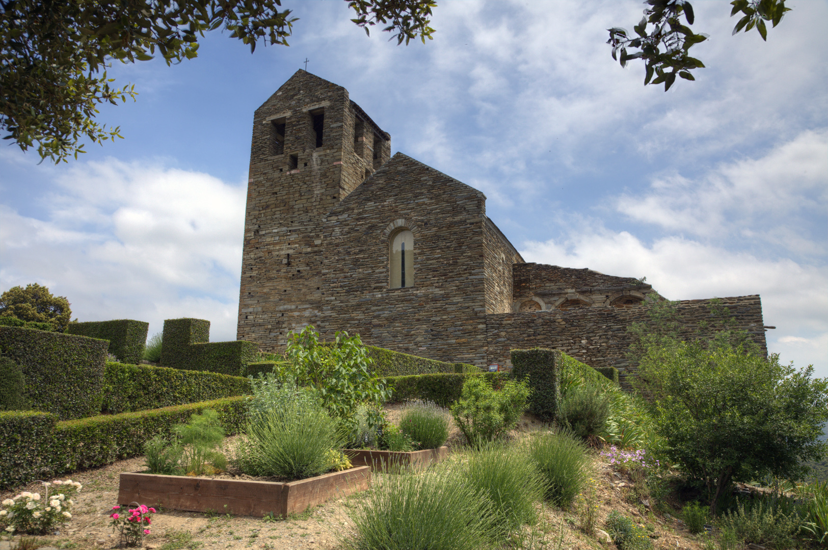 Serrabone Priory